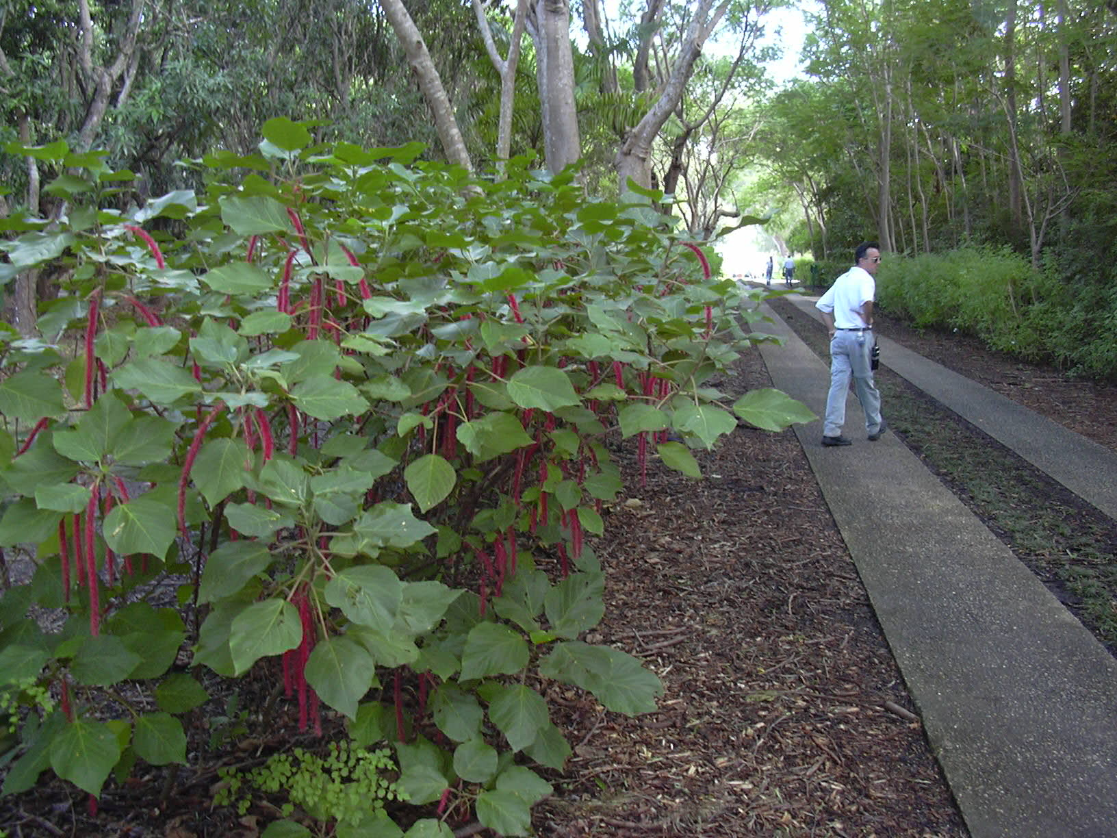 Acalypha hispida (habit). Location: Florida, Deering Park